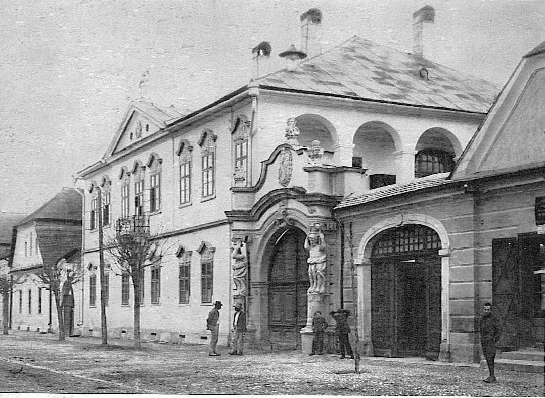 Casa Karacsony - sec XIX.